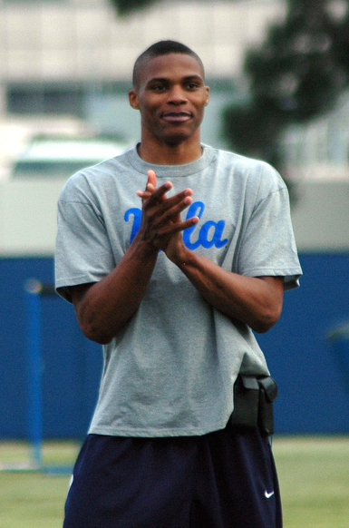 Photo of Oklahoma City Thunder guard Russell Westbrook taken on the UCLA campus